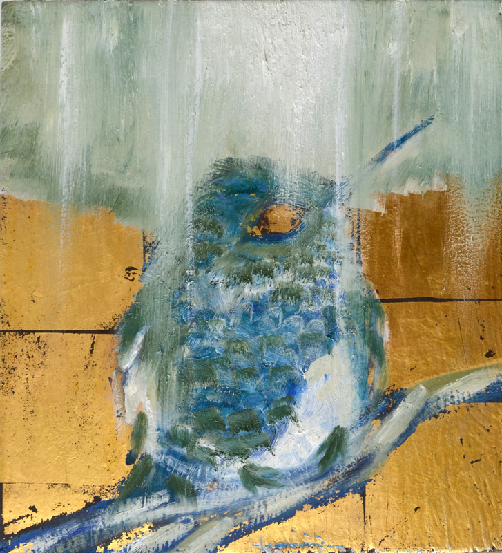 Evandro Angerami. Oil on Gold Leaves